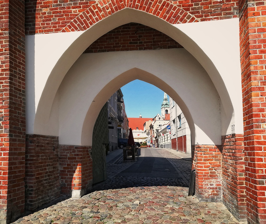 Brama Klasztorna w Toruniu1